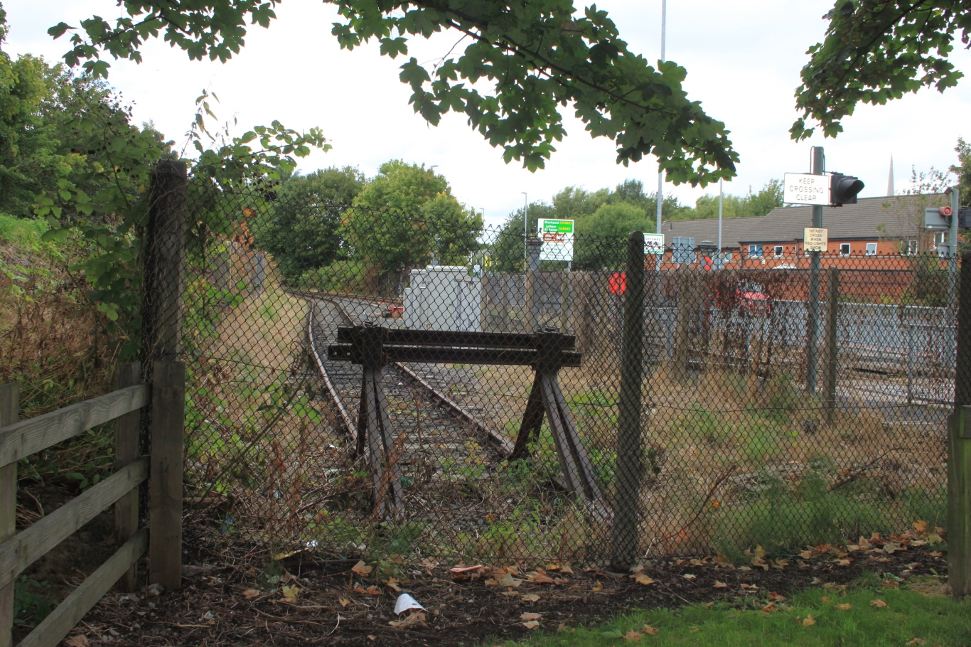 The stop blocks at Strand Road mark the end of the line for the Ribble Steam Railway. The track on the right of the fence leads to Preston station and the main line rail network.